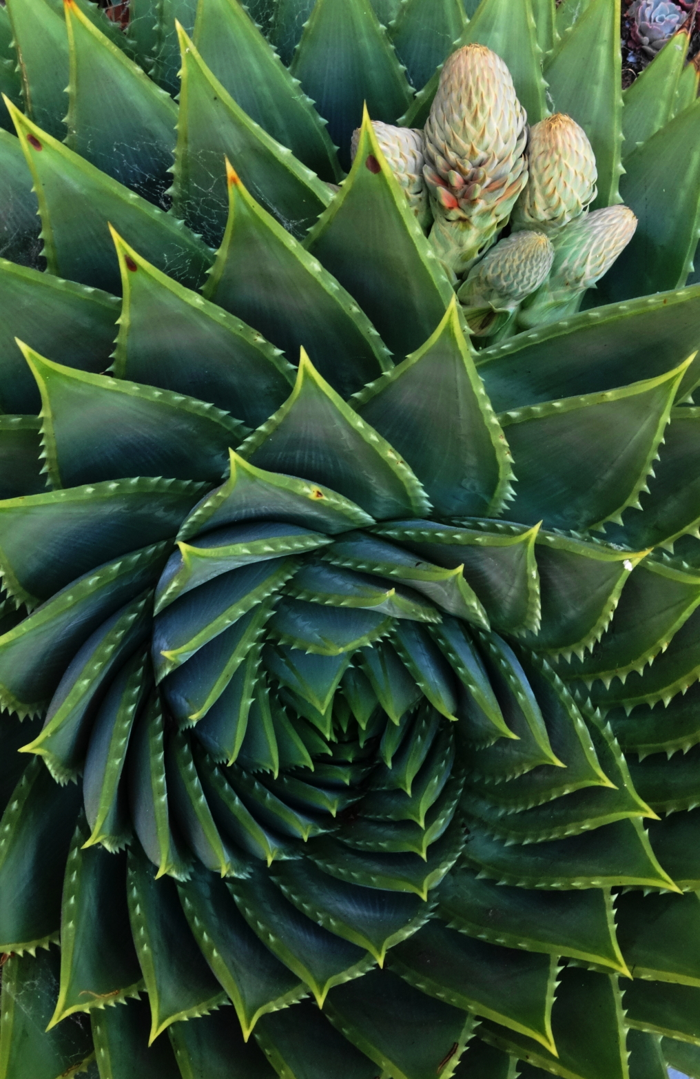 Aloe polyphylla growing in San Francisco with emerging flower bud.